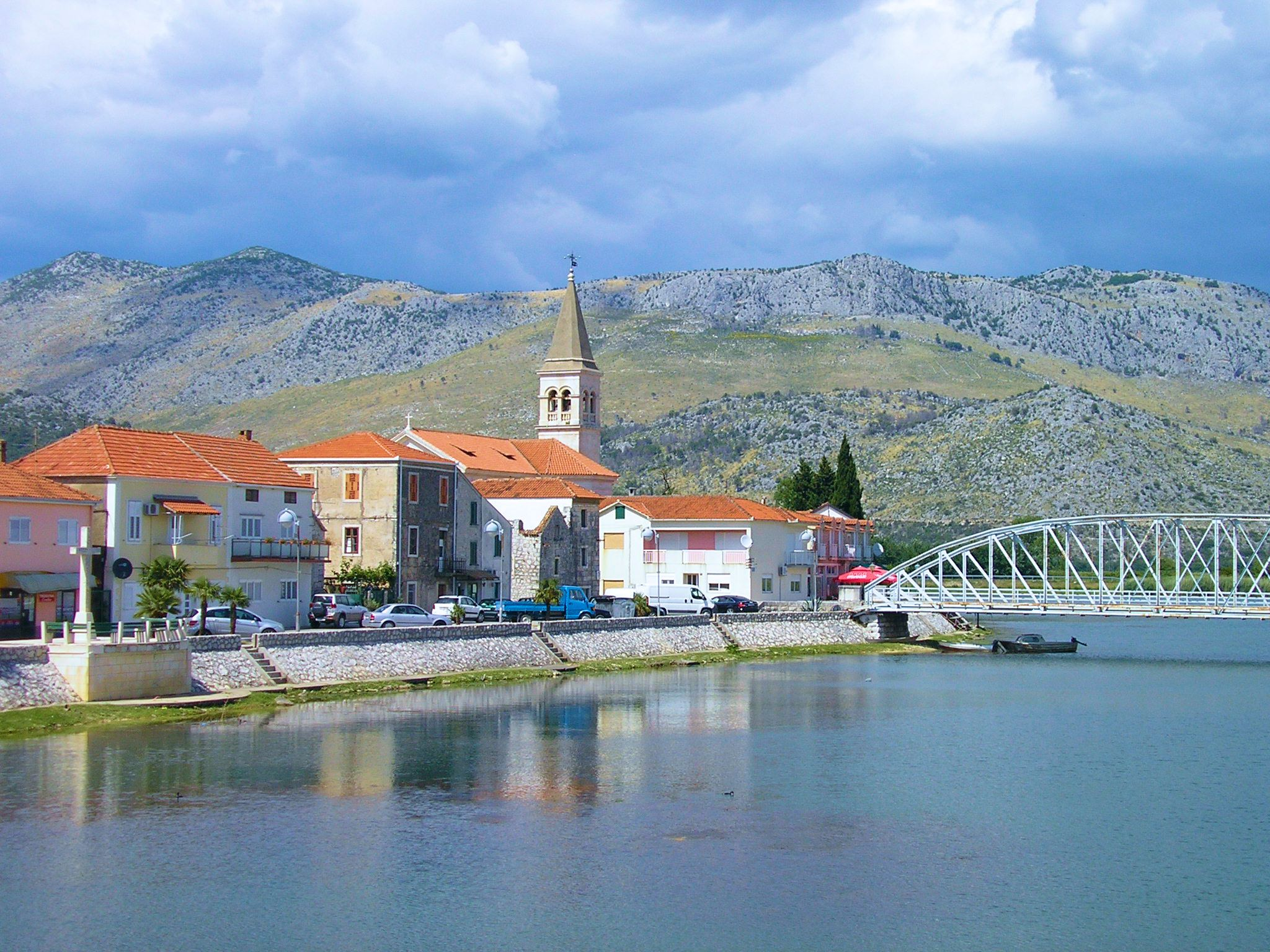 River bank in Opuzen